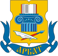 Arbat (municipality in Moscow), coat of arms